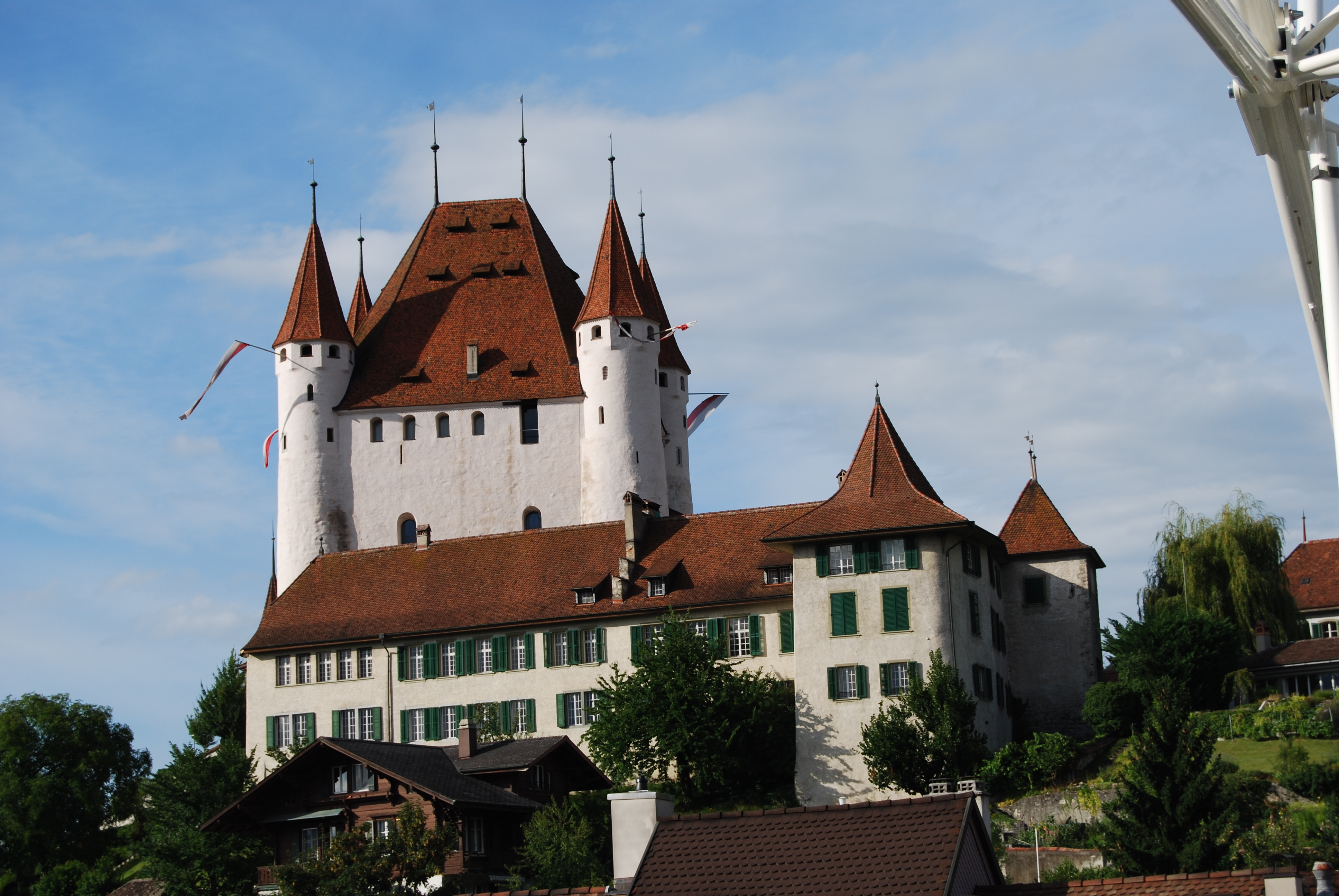 Castle Thun, canton of Bern, Switzerland